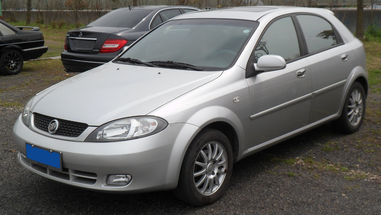 Buick Excelle HRV photographed in Anting, Shanghai municipality, China.